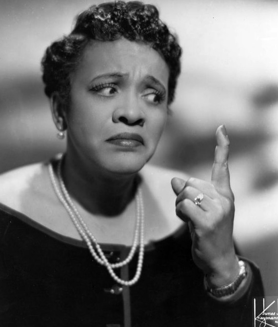 Photo of comedian Jackie "Moms" Mabley with contract showing her booked into Chicago's Regal Theater beginning October 27, 1944.